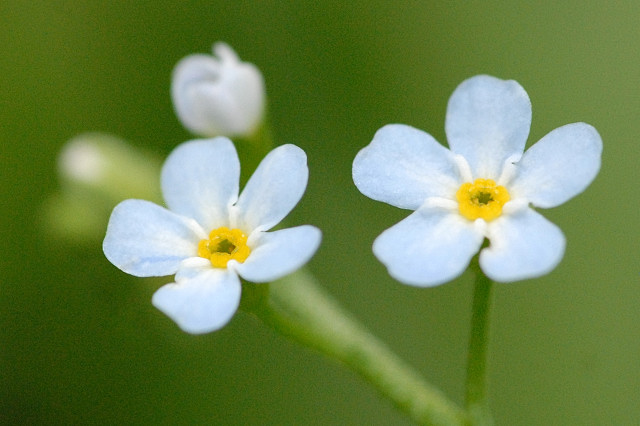 Myosotis secunda from Commanster, Belgian High Ardennes .